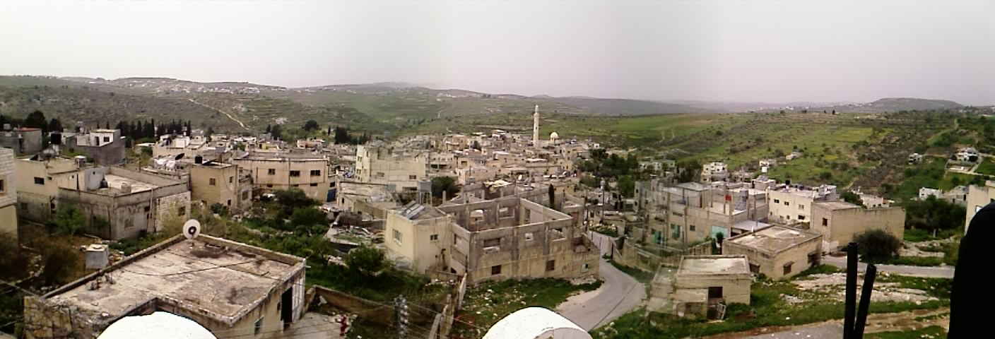 A bird's eye view picture taken from Alhaj Abu Kamal's house